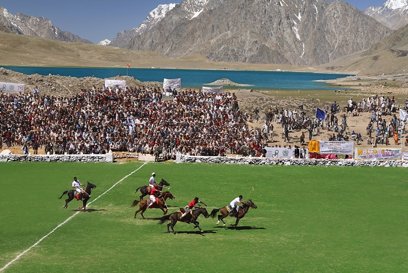 This is world's highest Polo ground located in Gilgit Baltistan. Its called Shindoor polo ground.it has a lake behind it.here the people of gilgit baltistan play polo and celebrate the spring festivals.